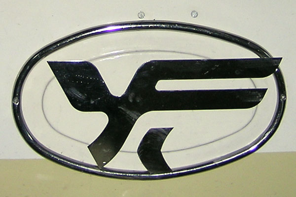 The emblem of Ust-Katav Wagonbuilding Plant on 71-619 tramcar.